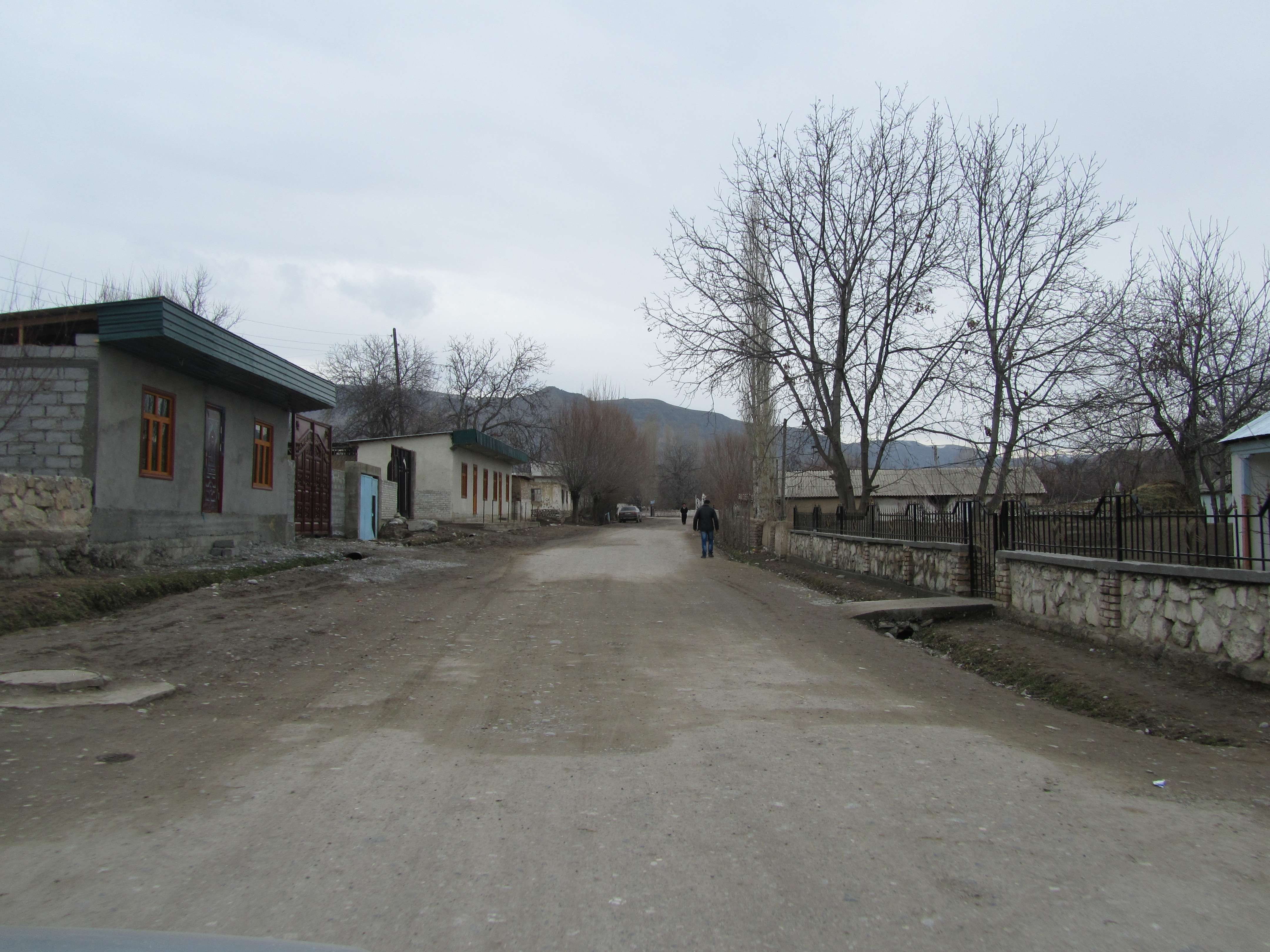 The main road of the village of Ak-Suu. Leilek District, Kyrgyzstan.